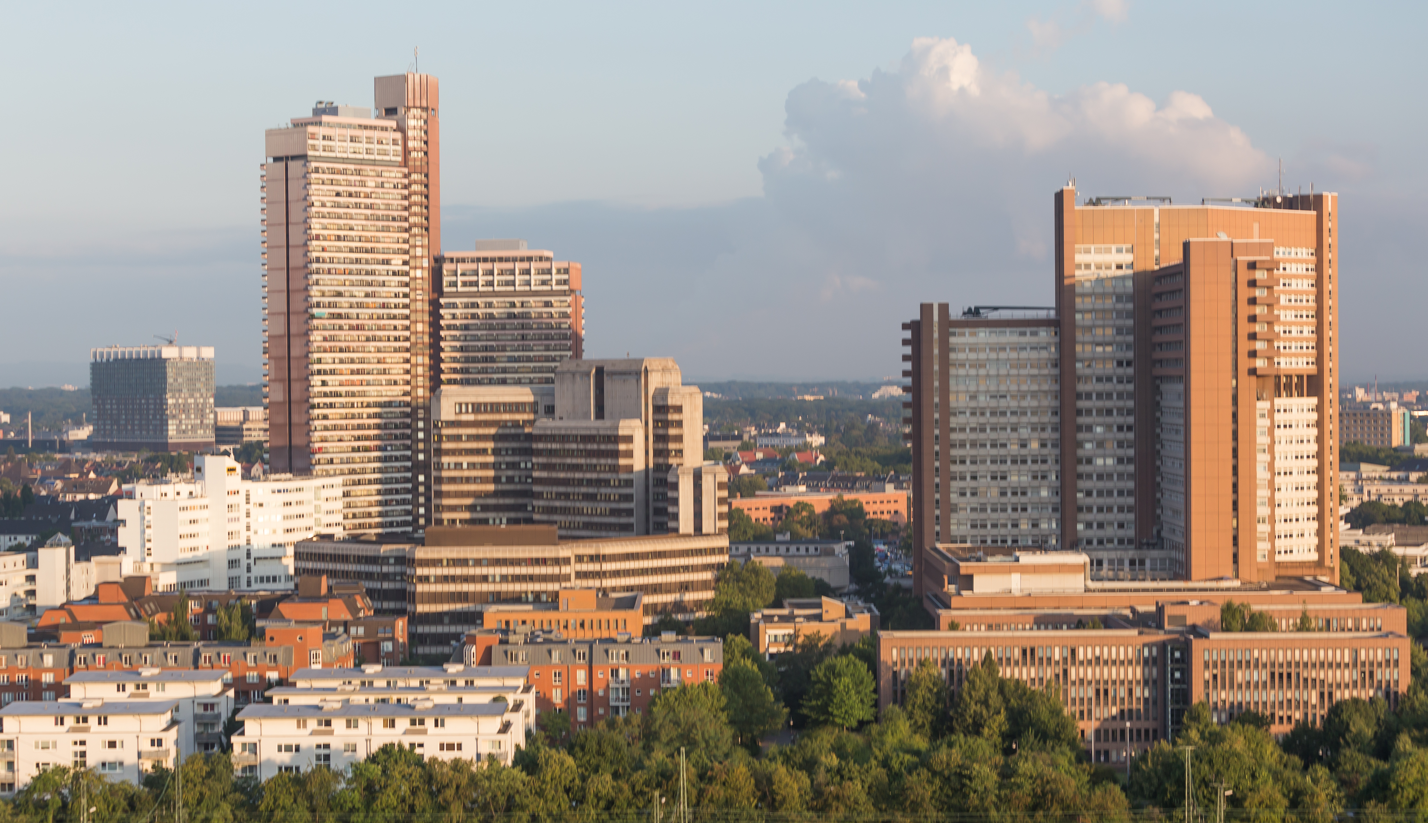 Hot air balloon trip across Cologne